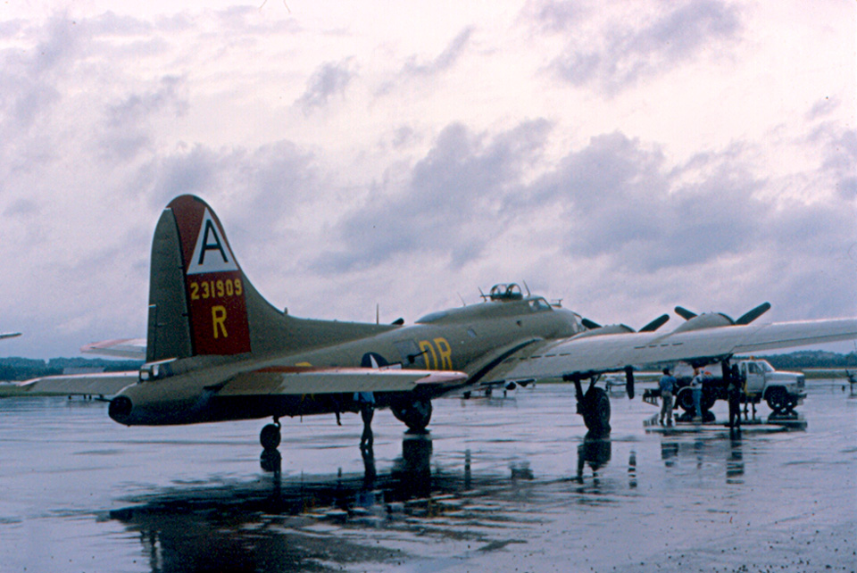 The Collings Foundation owns and flies two World War II heavy bombers, a B-17 Flying Fortress and B-24 Liberator. These aircraft tour the country, and the public can walk through them and even take short flights. The B-17 was older, smaller, and slower, but it was the better known, both during the war and afterward. On the other hand, it was easier to fly and more resistant to battle damage. More than 12,000 B-17s were built during World War II, and 18,000 B-24s. I went to Manassas in response to a newspaper request for volunteers. Weather was bad, and they did not open for business, but I got a look inside the B-17. The Collings Foundation still tours the country with these aircraft, plus a P-51 Mustang fighter.